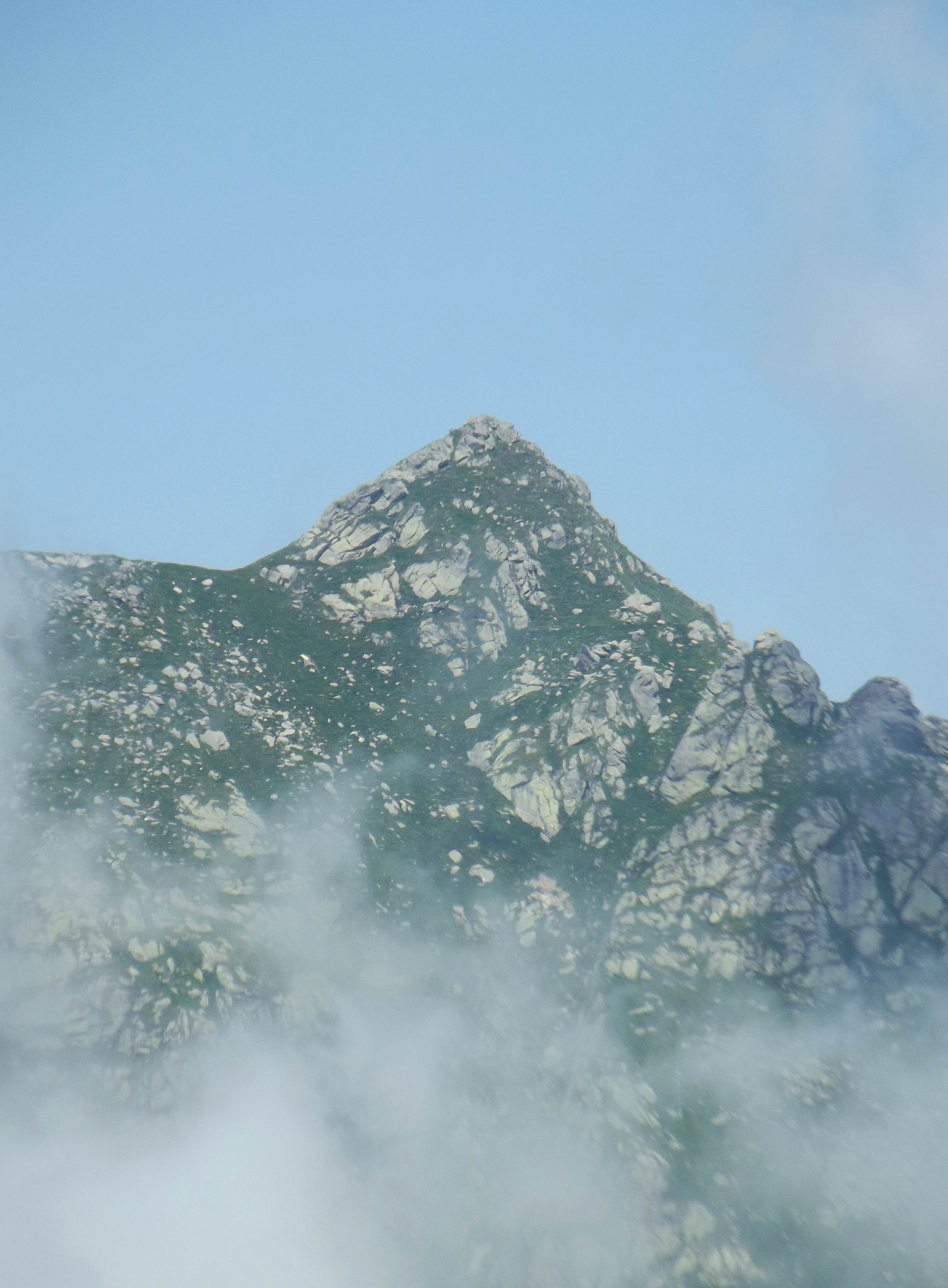 Monte Bechit (Alpi Biellesi, Italy) from Truc del Buscajon